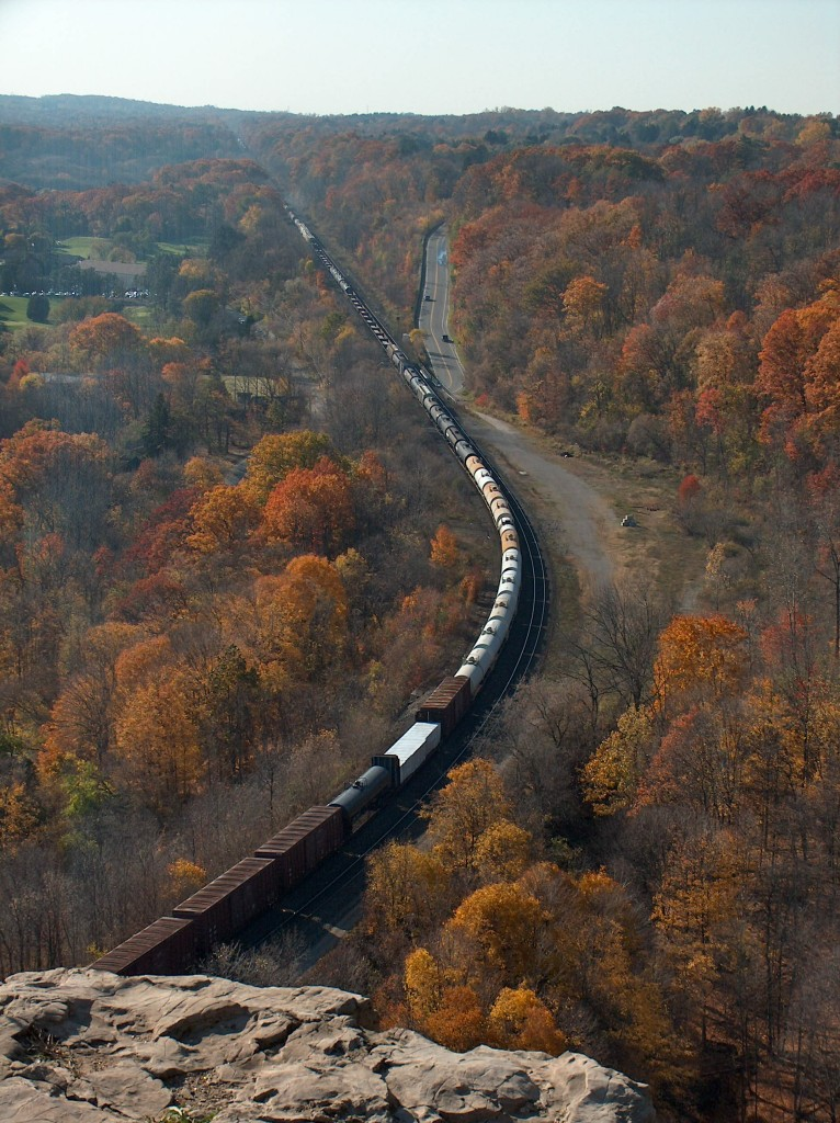 Dundas escarpment with train.